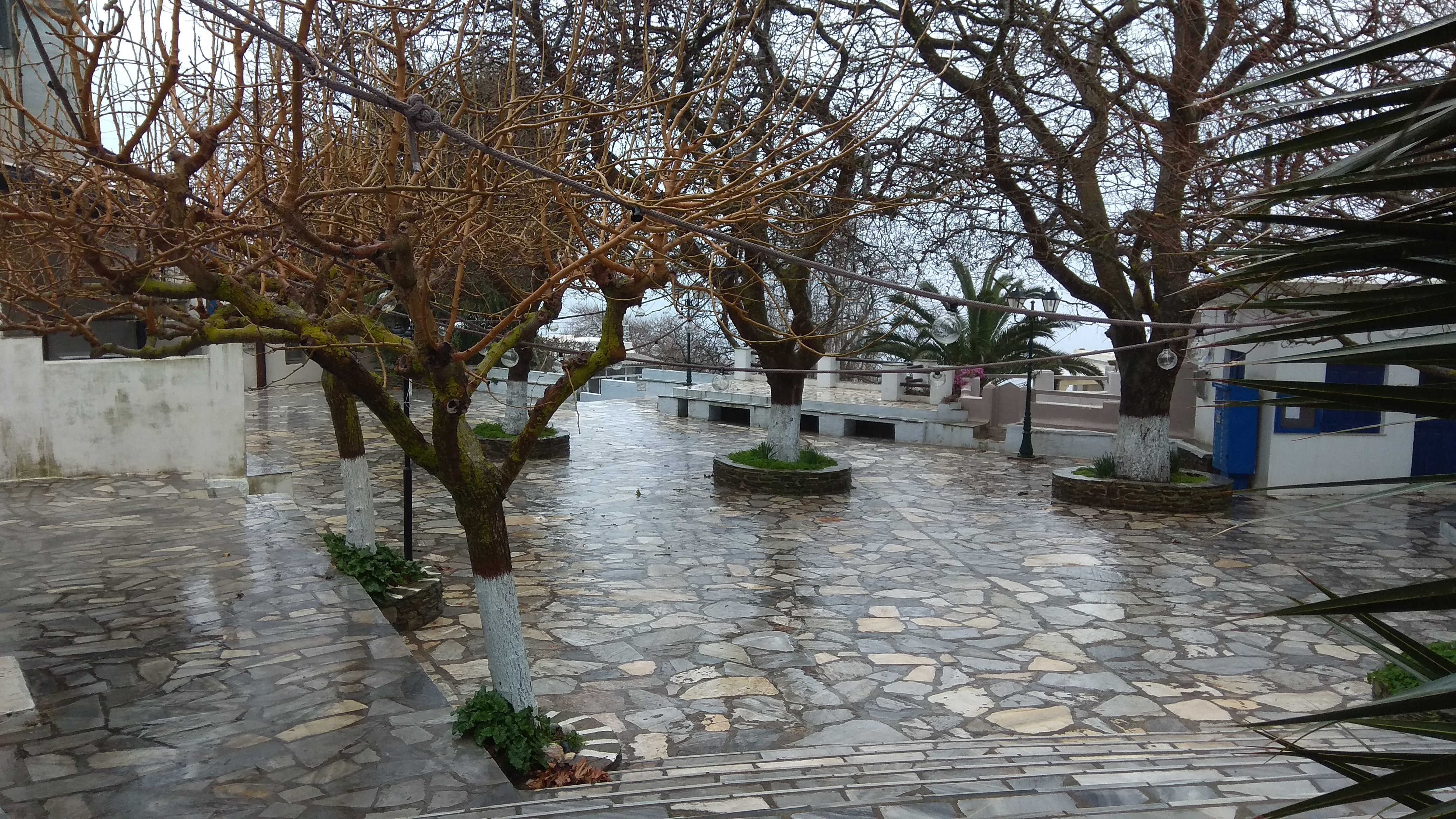 Winter view of the central square in the village Dyo-Choria, Tinos Greece (Jan. 2018